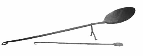 Image taken from book published in New York in 1922.